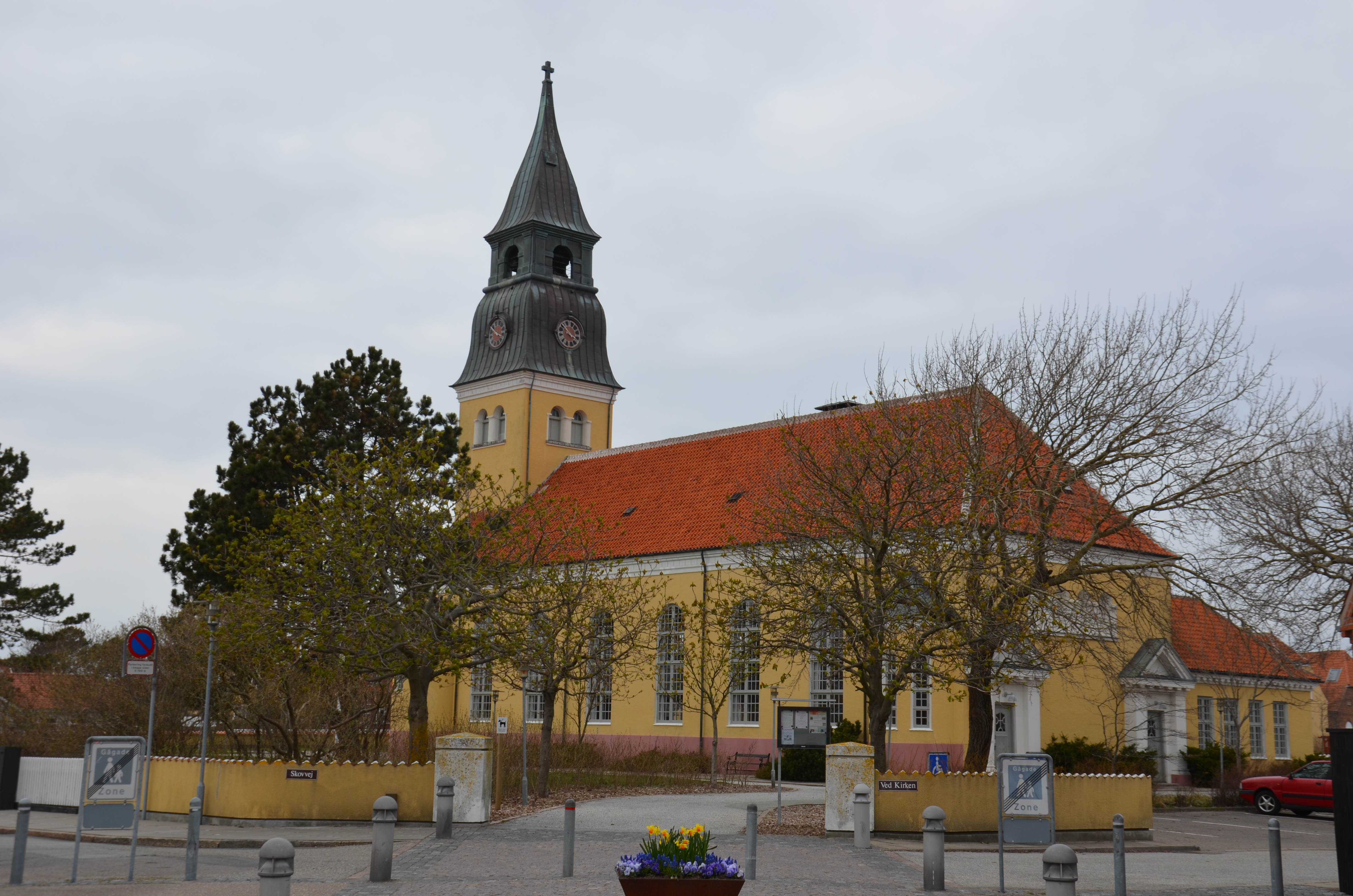 Skagens kyrka